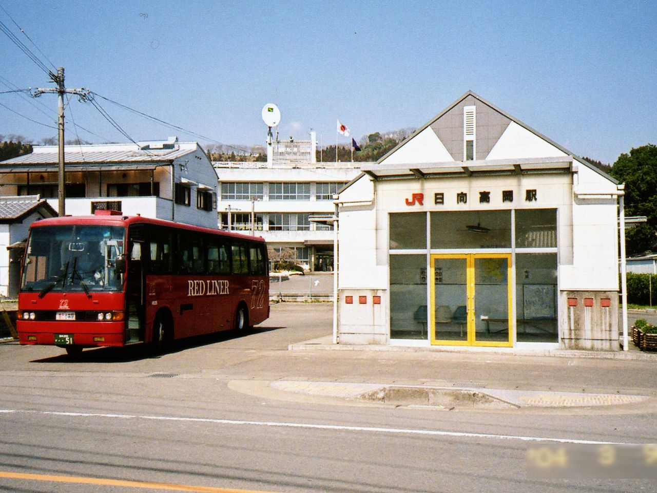 JR Kyushu Bus Hyuga-Takaoka Sta